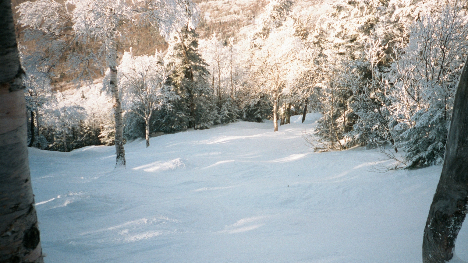 A picture of the entrance to Doc Dempsey's Glades, a popular trail at Smuggler's Notch ski area, Vermont.